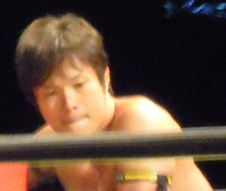 Japanese professional wrestler,KUDO.Sep 8 2010, DDT Shin-kiba 1st Ring.